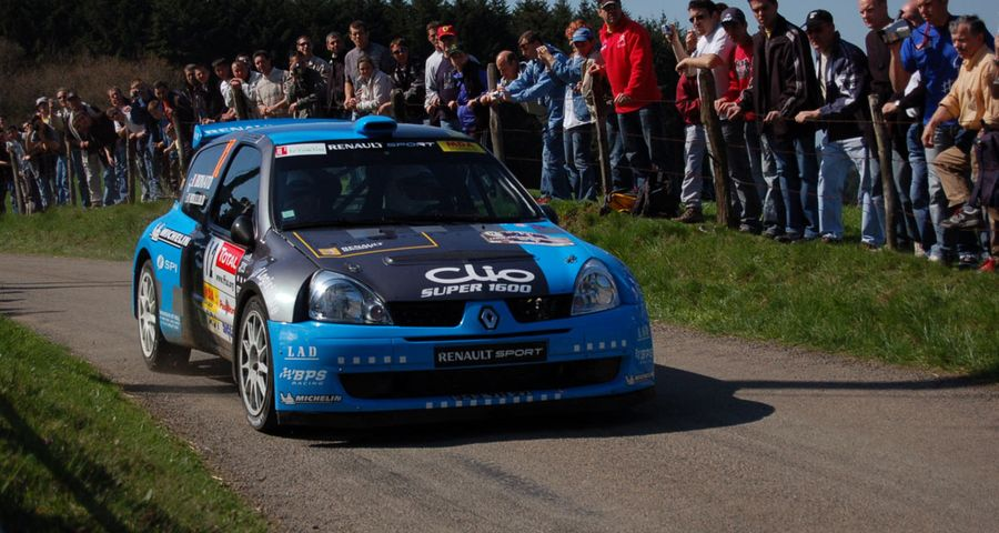 Clio S1600 in Rally Lyon-Charbonnière 2006 Equipage Bonato-Boulloud sur Clio S1600 au Rallye Lyon-Charbonnière 2006